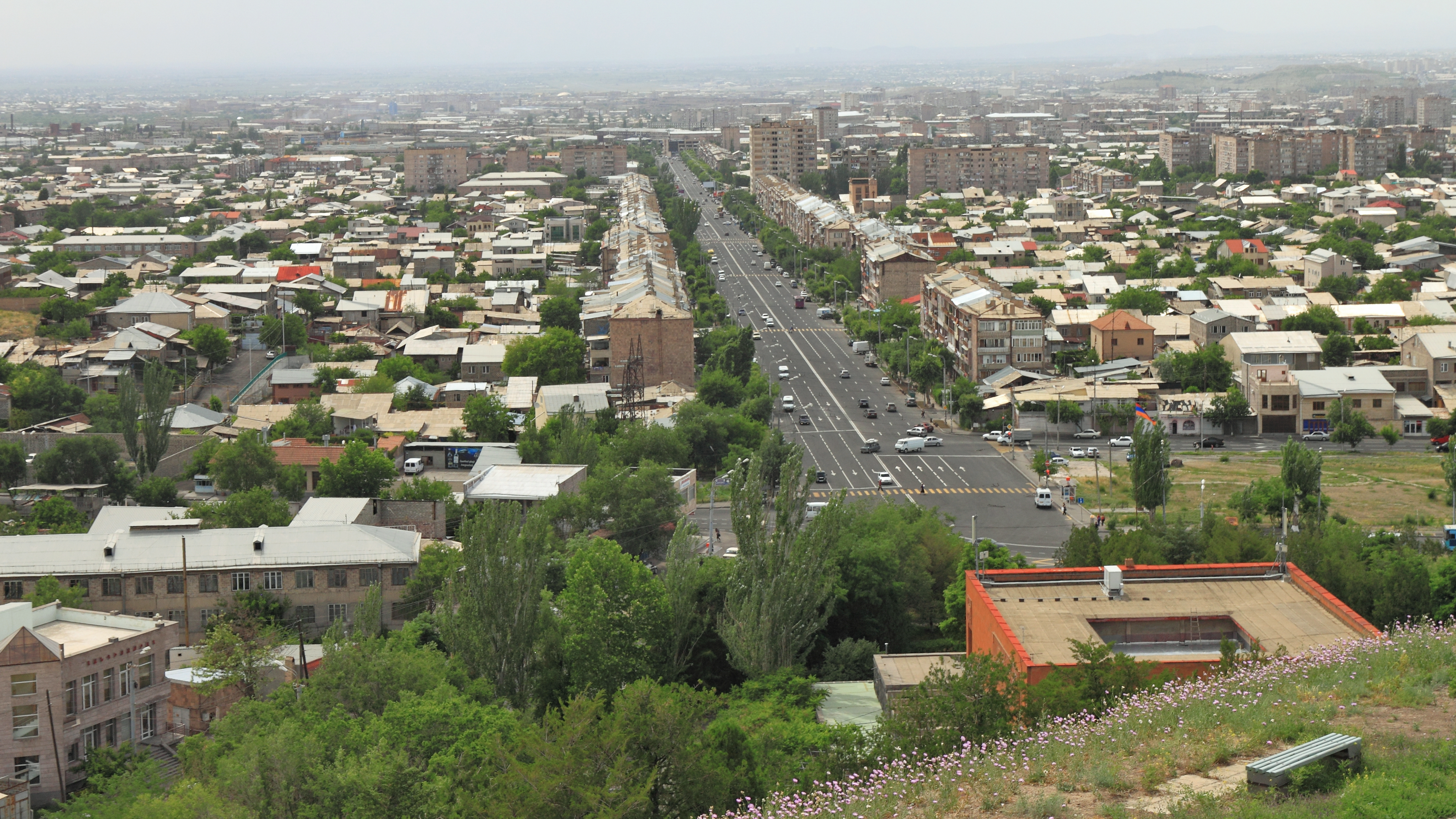 View from the Erebuni Fortress to the Erebuni street. Erebuni District. Yerevan, Armenia.